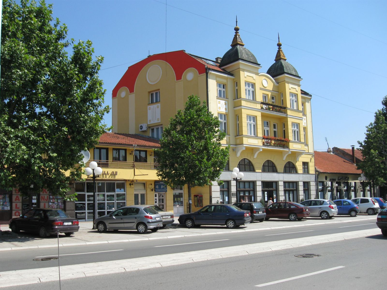 downtown